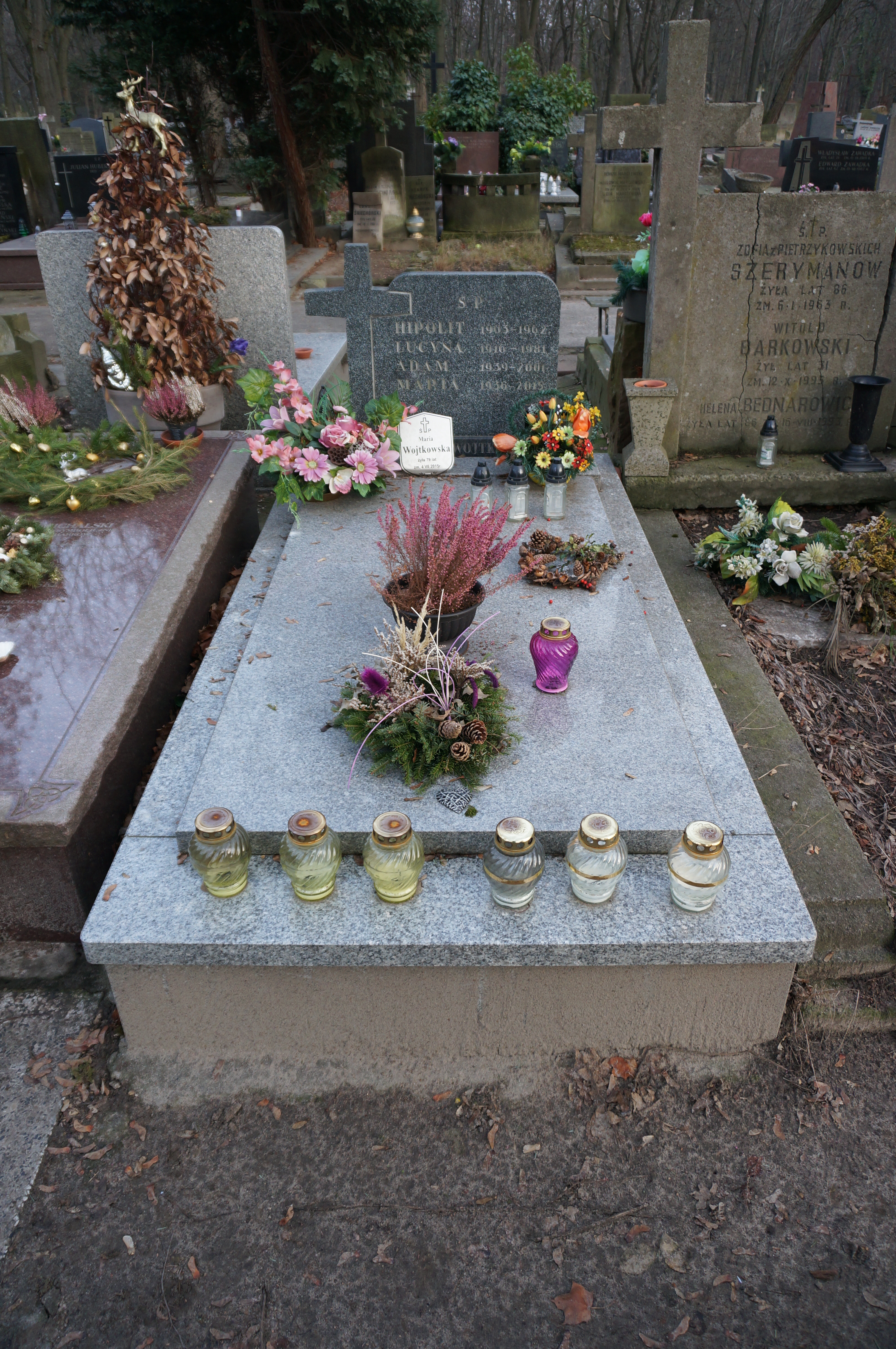 The grave of Maria Wojtkowska at the Powązki Cemetery (section 323, row 2, grave 24)